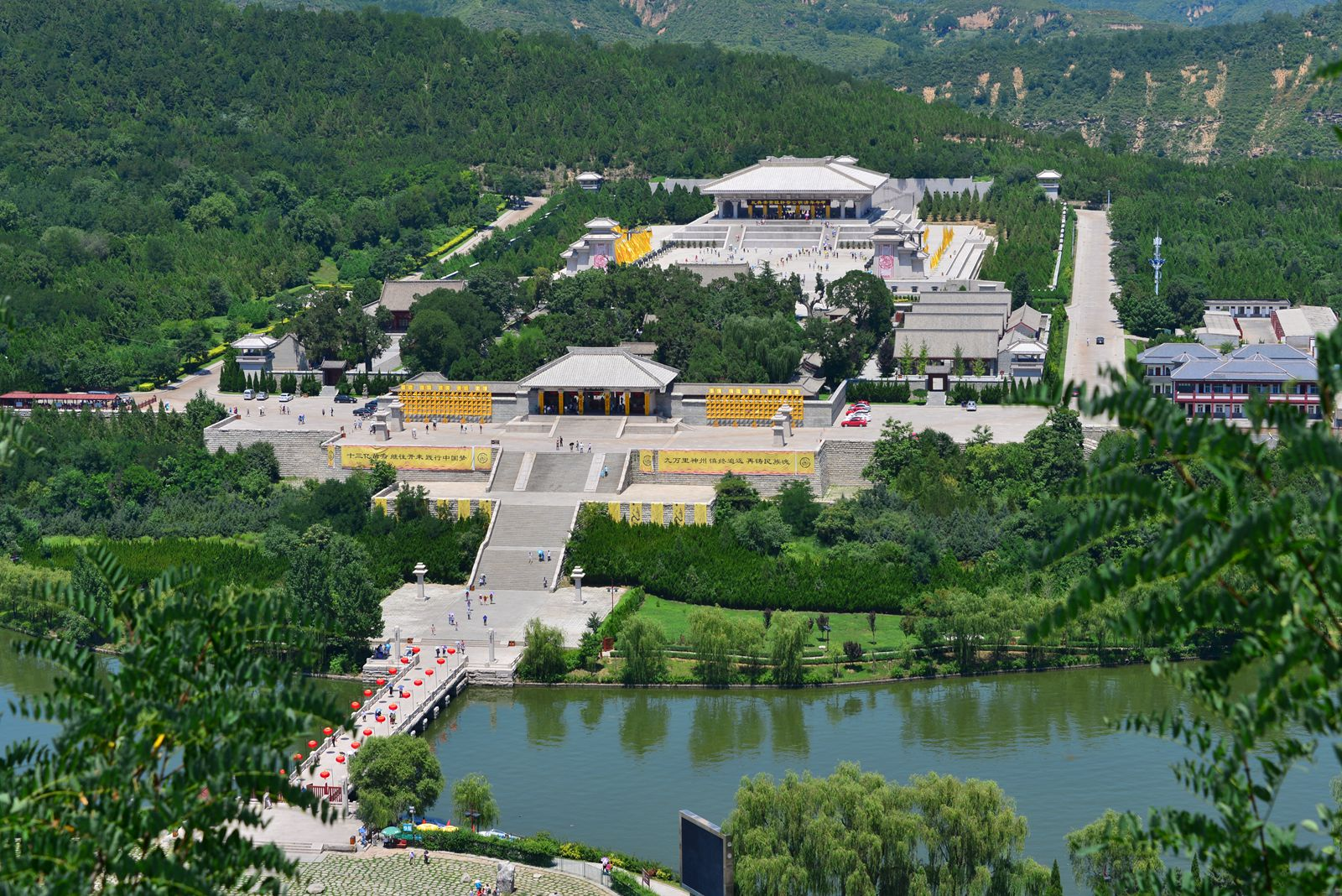 Xuanyuan Temple (轩辕庙) in Huangling, Yan'an, Shaanxi. The temple is dedicated to the worship of Xuanyuan shi 轩辕氏, Huangdi 黄帝, the "Yellow Deity".